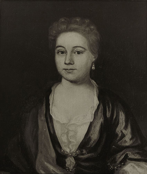 Dimensions: 25 x 24 in. (63.5 x 60.96 cm.)